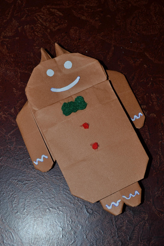 Folded from a 35cm square sheet of tant paper, duo colored. I modified Gerwin Sturm's diagrams of the green Android to fold this model. For more details, visit